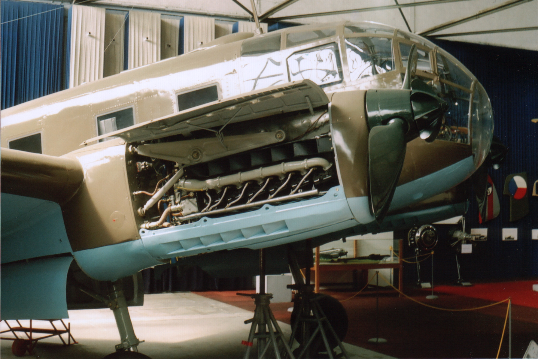 Siebel Si 204D, Aviation Museum Prague Kbely. The plane was assembled in 2001-2003 using original parts owned by the museum since 1970s, airframe of SNCAC NC-702 MARTINET acquired from France in 2000 and newly manufactured parts.